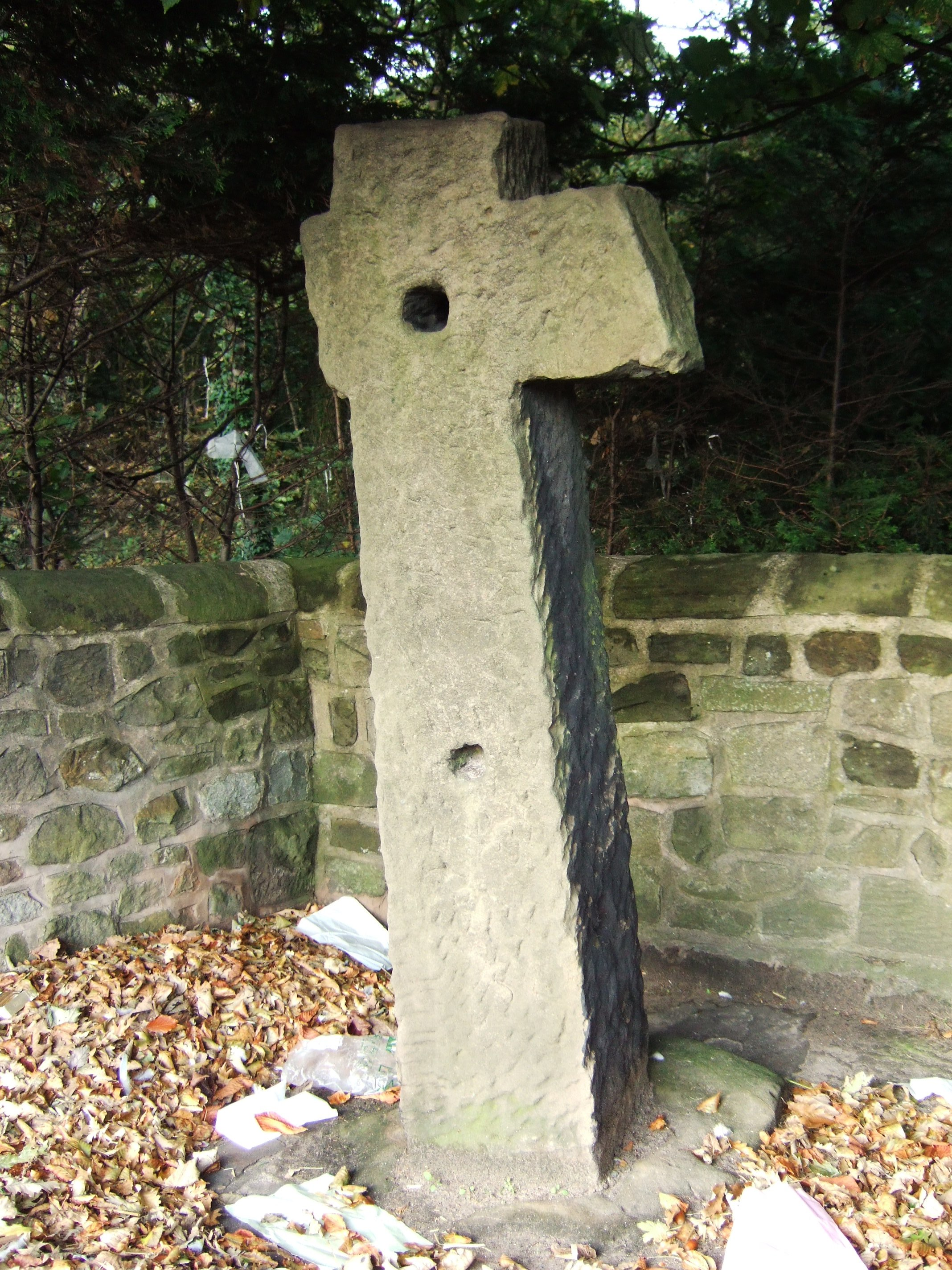 Scarisbrick Wayside Cross, situated alongside the A570 road in Scarisbrick, Lancashire, England. The cross was erected in medieval times, and was part of two lines of crosses which led from Scarisbrick Park, one leading to Ormskirk, a nearby market town, the other to Burscough Priory.